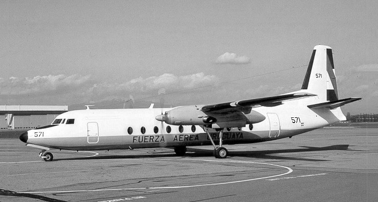 One of the Fairchild Hiller FH-227B aircraft used in the production of the 1993 film "Alive", painted to appear as the aircraft involved in the 1972 crash of Uruguayan Air Force Flight 571.